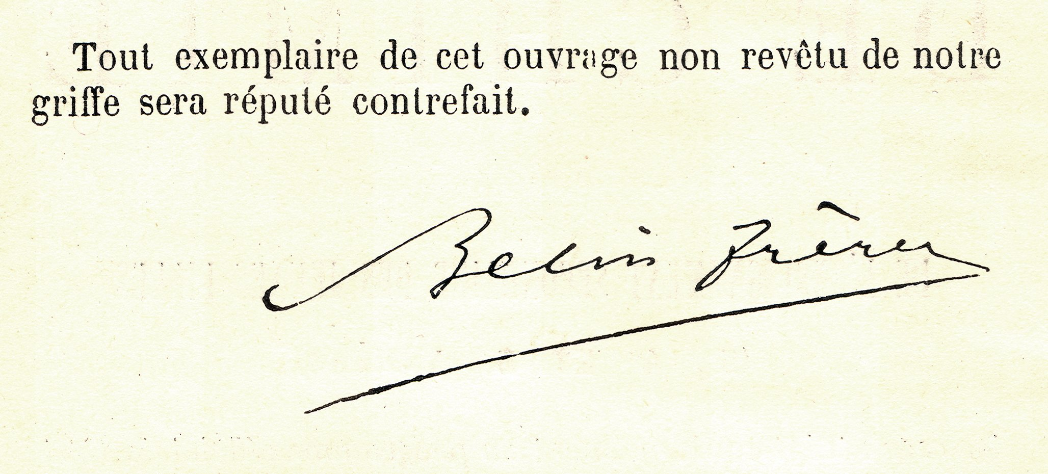 Belin signaturePicture scanned in : Leçons élémentaires de chimie (B.Bussard, H.Dubois). 1906, page 4.